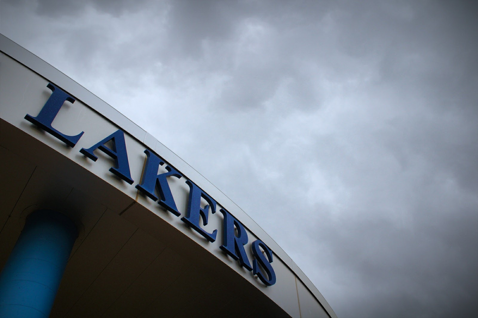 A dramatic picture of the Lakers part of the 'Home of the Lakers' text in the front of the building.